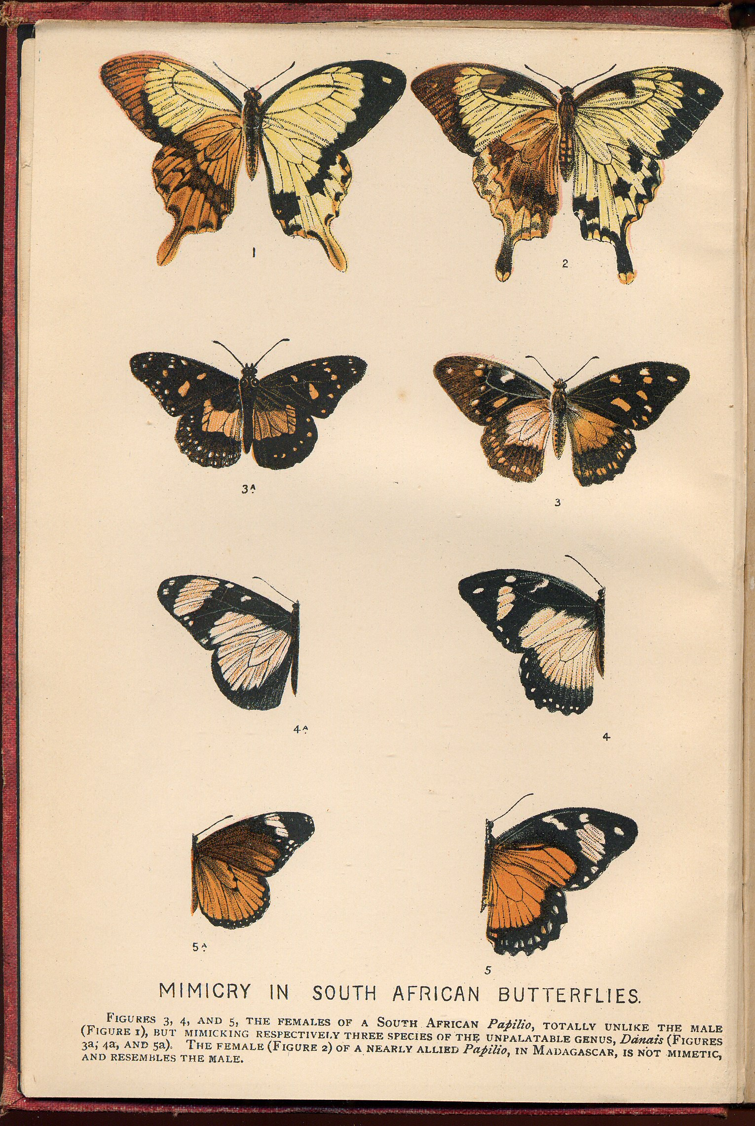 Frontispiece of The Colours of Animals by Edward Bagnall Poulton, 1890, showing Mimicry in South African Butterflies. Figs 3, 4, 5 females of a Papilio, totally unlike the male (Fig 1) but mimicking respectively three species of the unpalatable genus Danais (Figs 3a, 4a, 5a). The female (Fig 2) of a nearly allied Papilio, in Madagascar, is not mimetic and resembles the male.